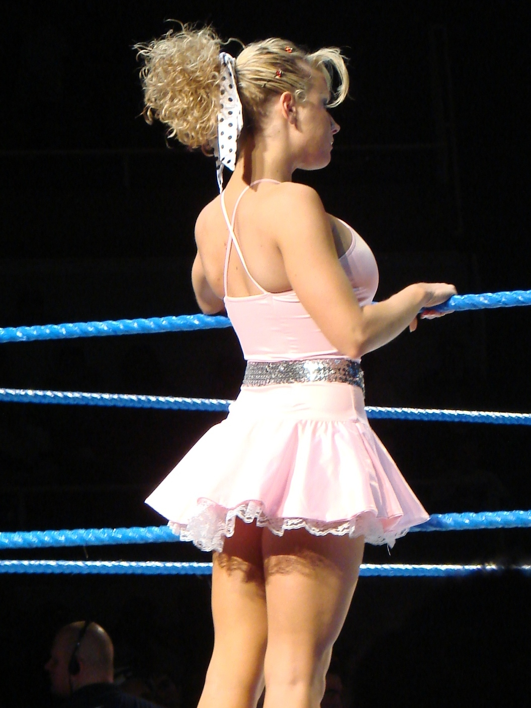 Kara Drew, aka Cherry, at a SmackDown! Live Event in Champaign, IL on February 4, 2007.